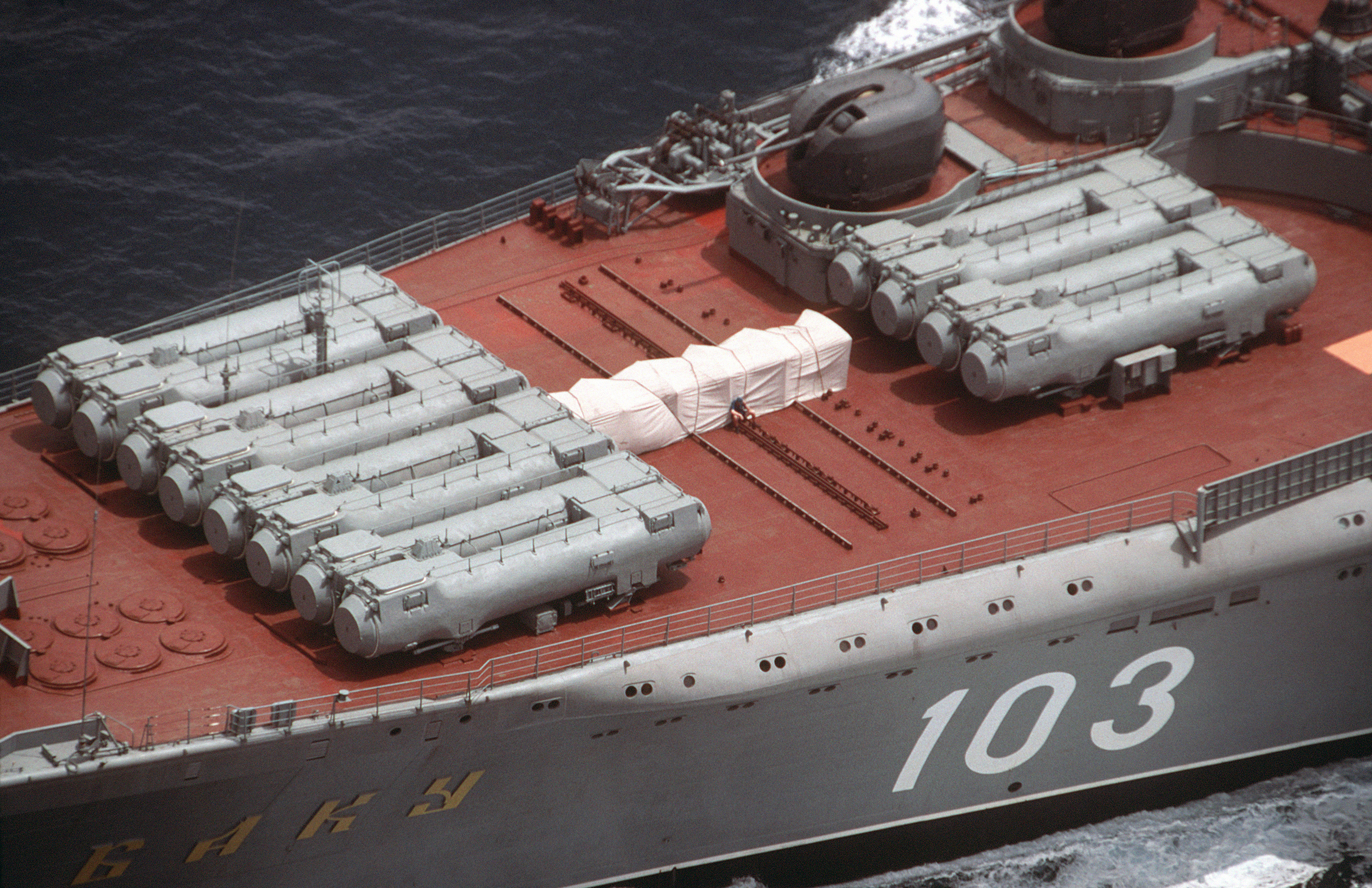 An aerial view of SS-N-12 missile launchers and a 100 mm dual-purpose gun on the bow of the Soviet Kiev class VSTOL aircraft carrier BAKU (CVHG 103).